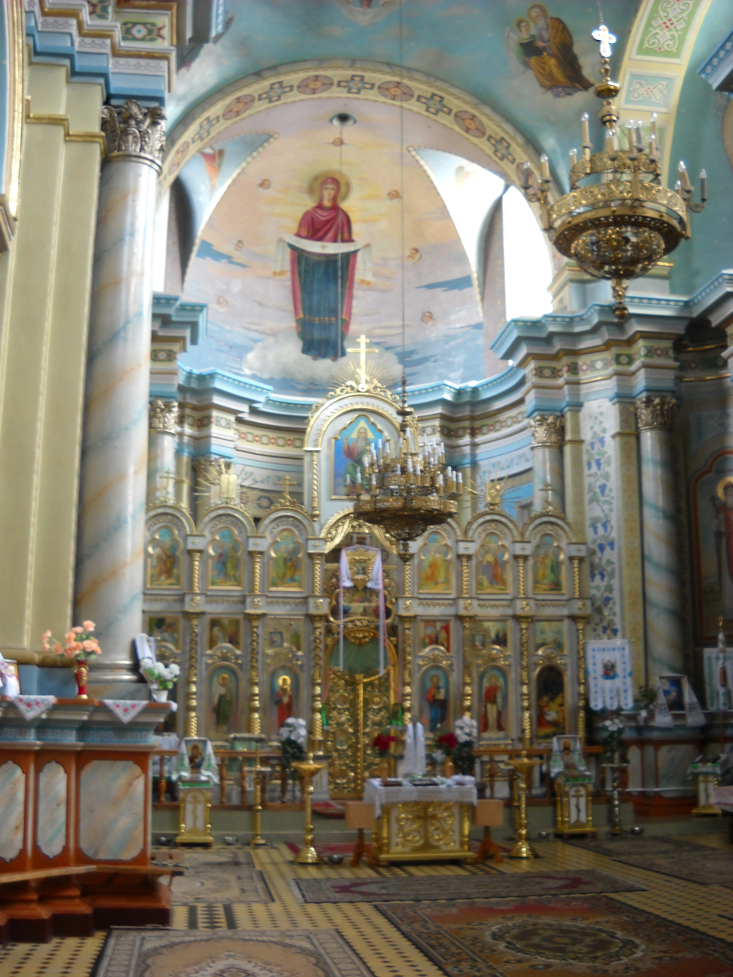 Orthodox Cathedral of the Nativity of Christ in Volodymyr Volynsky, a former Catholic church